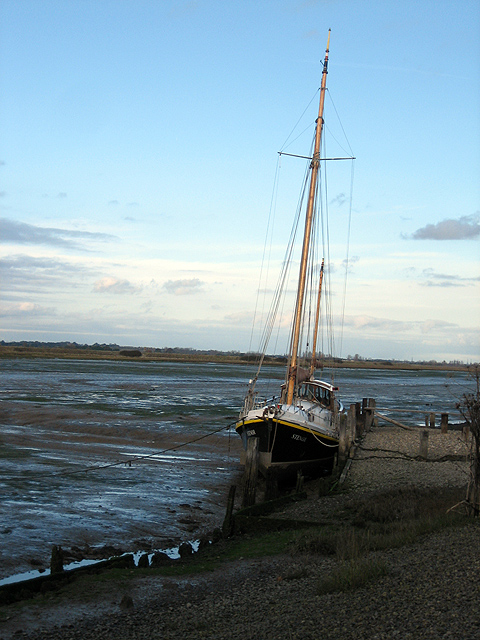 Yacht at a small quay on Landermere Creek "Stenoa" at rest - but she'll refloat on the next high tide. The area of Hamford Water was fictionalised in Arthur Ransome's "Secret Water" Secret_Water